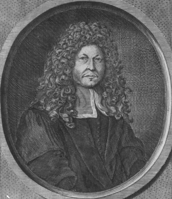 Etching of Philip Verheyen, professor of anatomy at the University of Leuven, 1691. Opposite title page of Verheyen's Corporis humani anatomia